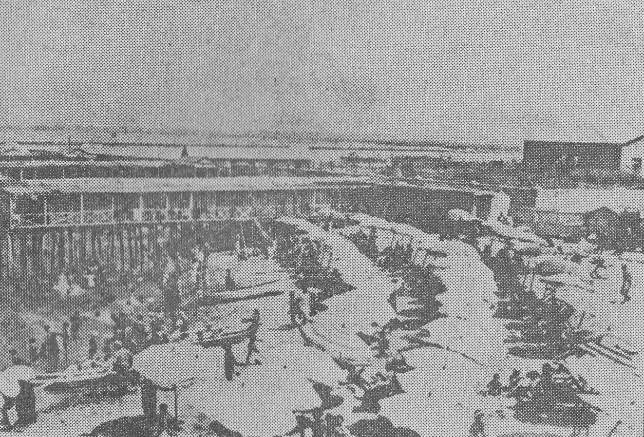 Emma's seaside resort in Marina di Pisa, Tuscany, Italy.